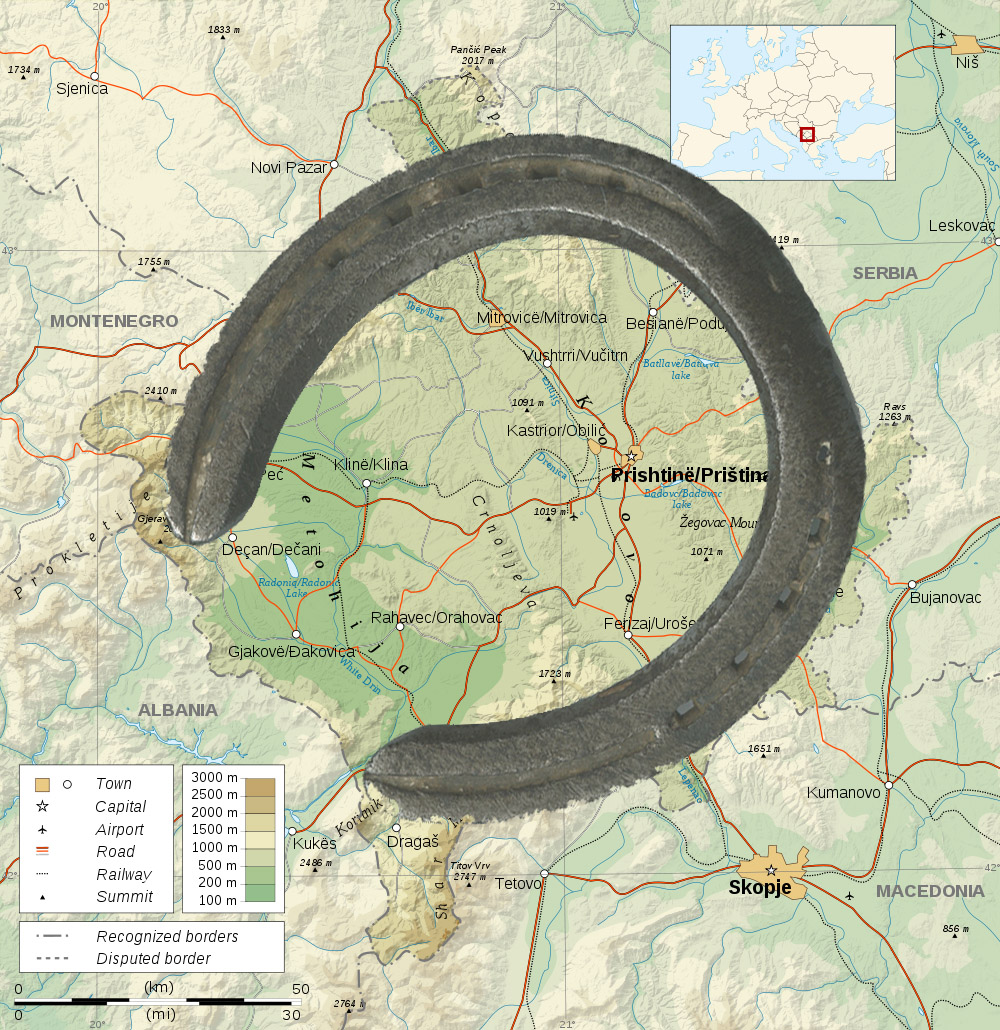 Kosovo map with horseshoe from the Serbian side. Purpose of this image is to illustrate Operation Horseshoe article. The operation's title was strictly descriptive. The Serb military and police would squeeze the KLA and civilians in an attack launched from three sides, destroying the KLA's bases and fighters and driving out the population as refugees fled through the open southwestern end of the horseshoe into Macedonia and Albania.[1]